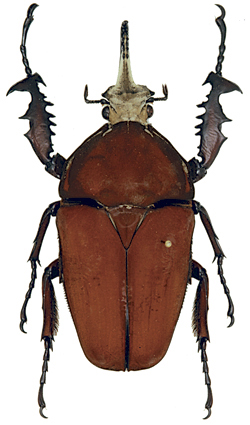 Specimen of Mecynorhina ugandensis Moser